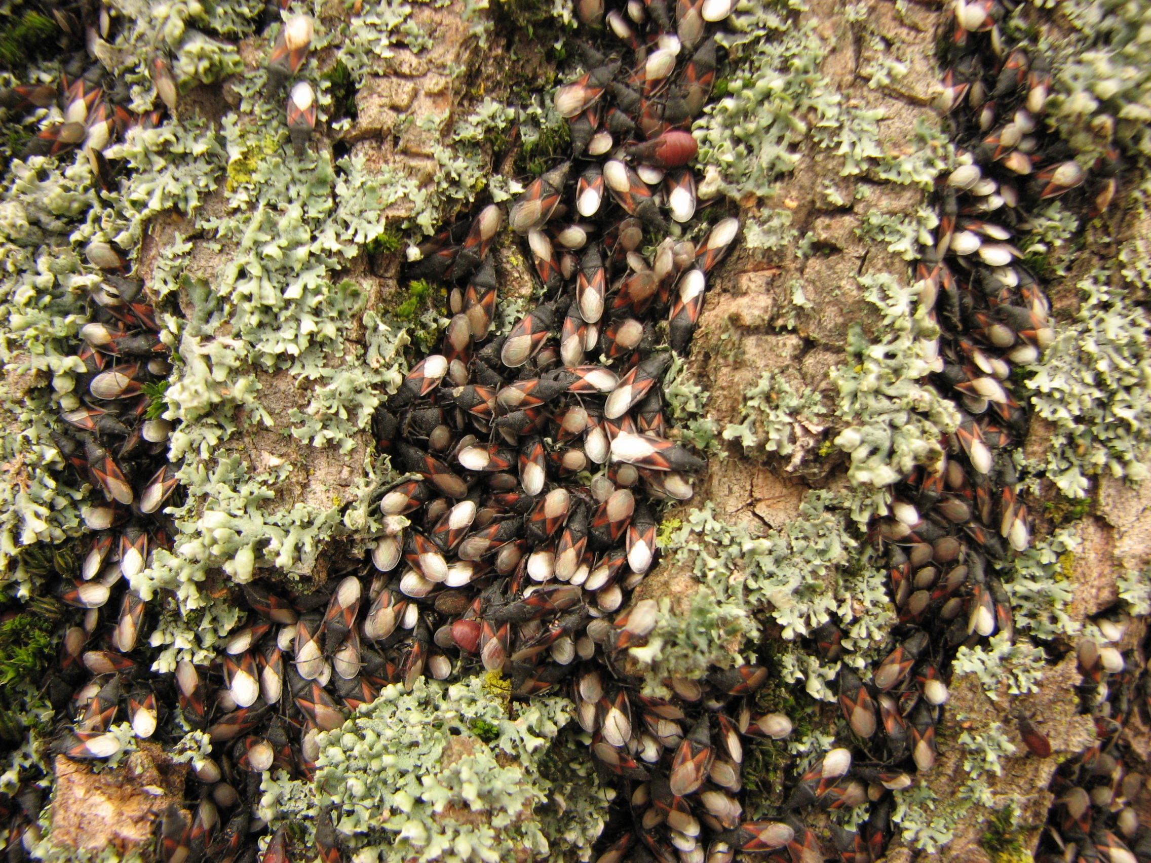 A swarm of Oxycarenus lavaterae bugs (Heteroptera: Lygaeidae) hybernating on Tilia sp. in the neighbourhood of Fužine (Moste District) of Ljubljana, Slovenia, on the Trail of Remembrance and Comradeship. Note several last instar larvae with bright red abdomens.